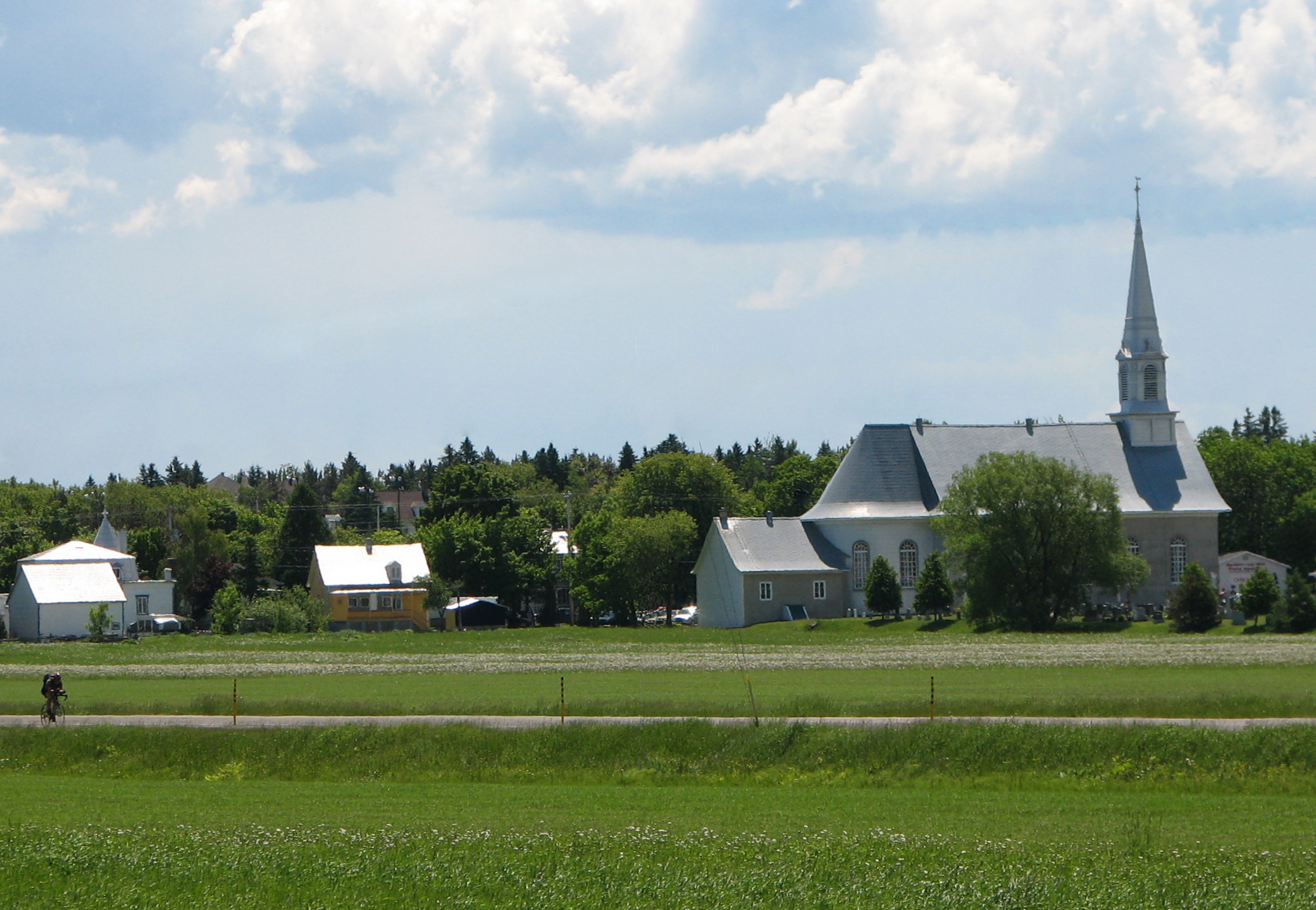 Church Notre-Dame-de-l'Assomption, Berthier-sur-Mer, province of Quebec, Canada